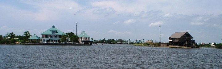 Junction of North Pass (center) with Pass Manchac. The view is from Pass Manchac toward the north.